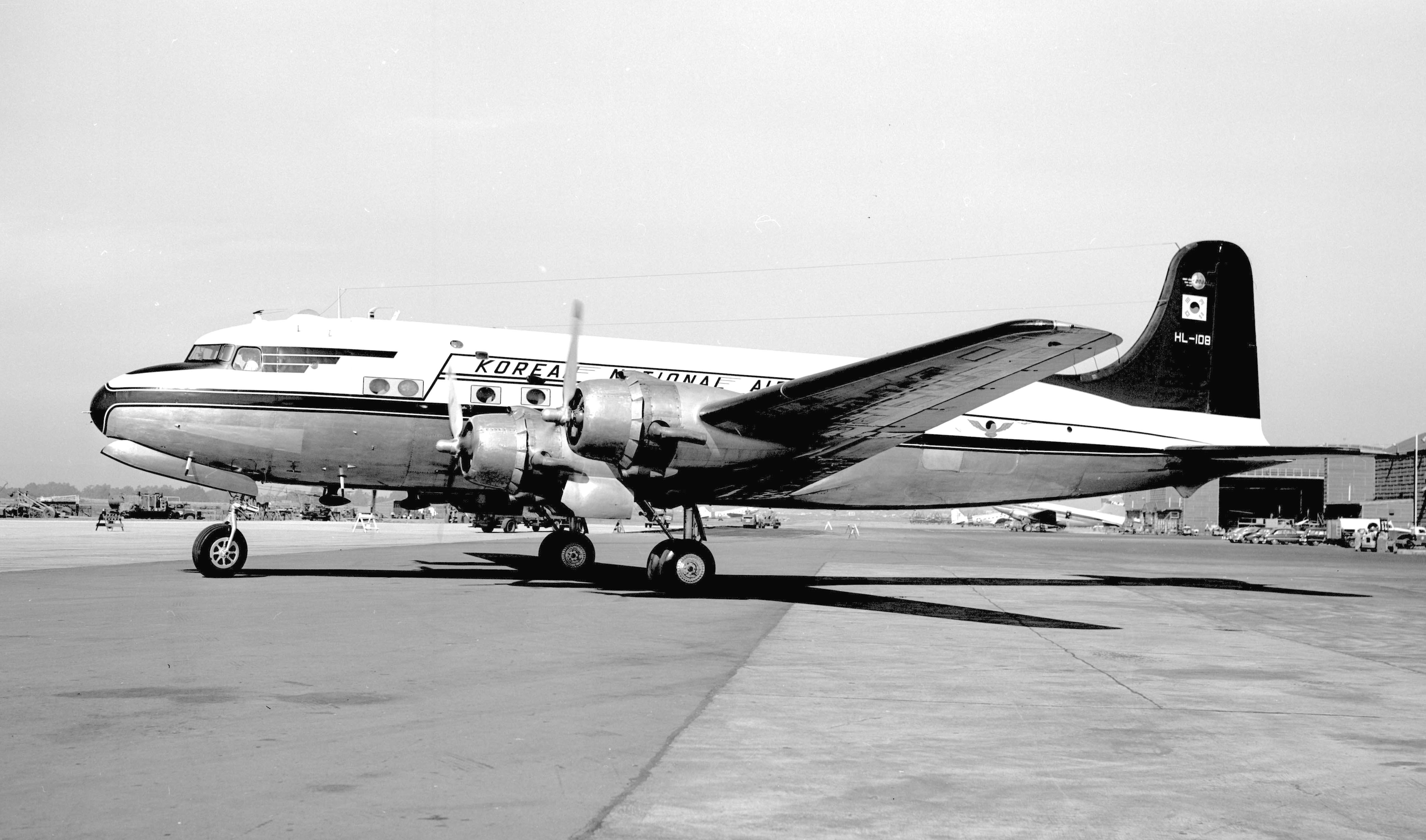 Postwar production DC-4-1009 fresh out of overhaul and the paint shop on October 20, 1953 at Oakland. Ex California Eastern Airlines N228A. This and a few surplus C-54s had dark rectangles painted around its oval windows to make it look more modern.